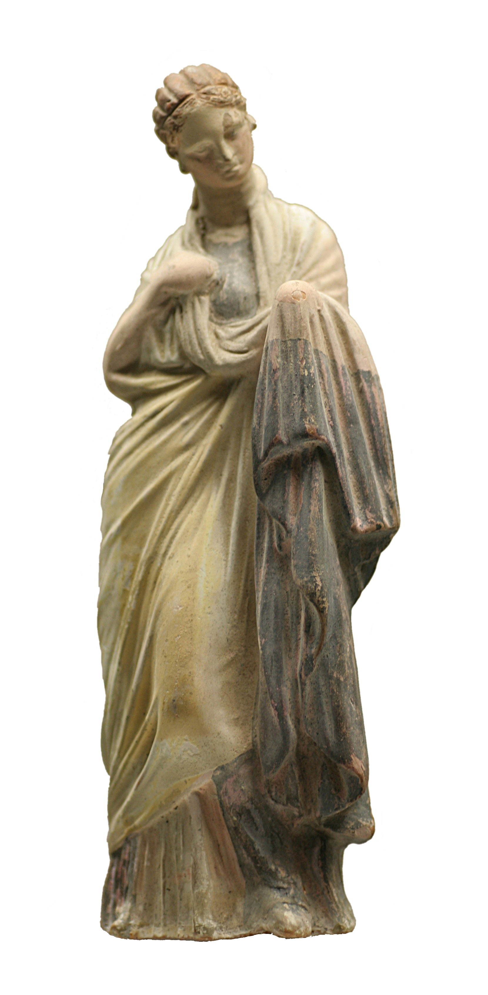 Photographed by myself in Antikensammlung München, Germany.